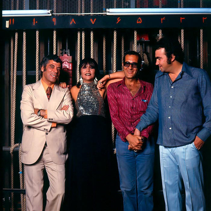 Atta Behmanesh (sport anchor), Giti (singer), and Parviz Gharib Afshar (producer) on Iranian state run TV